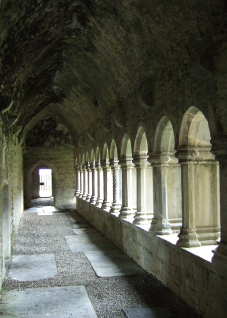 The cloisters, Quin Abbey The C15th cloisters have been used as a burial place since the Abbey was dissolved in the C16th. The tomb in the far doorway commemorates the last friar to work from here, who died in 1822 aged 89.